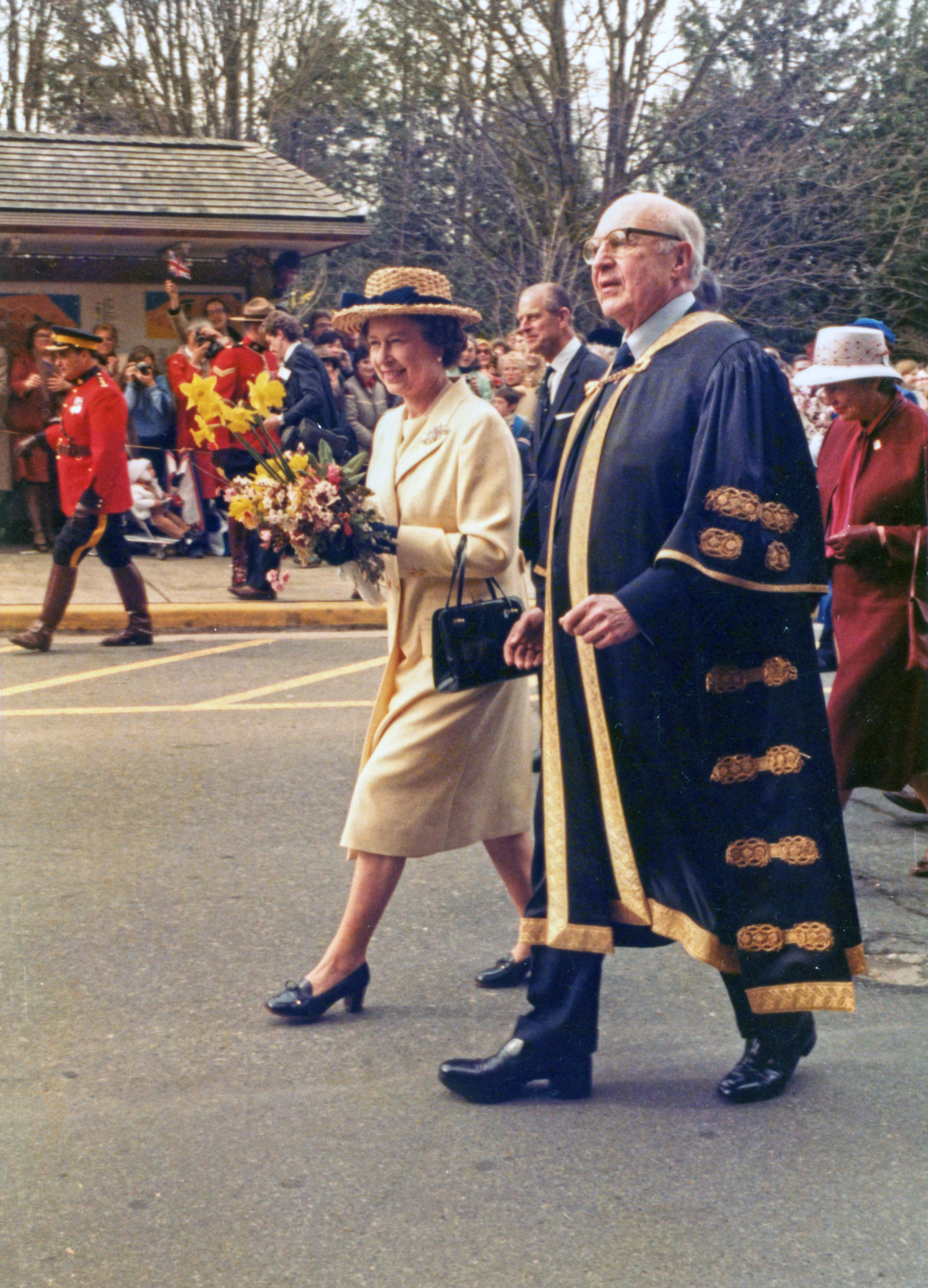 Queen Elizabeth II, Prince Philip, Duke of Edinburgh (in background), UBC Chancellor John Clyne Royal tour of Canada, 1983-Mar-09 Walking at the University of British Columbia (UBC), Vancouver BC, Canada